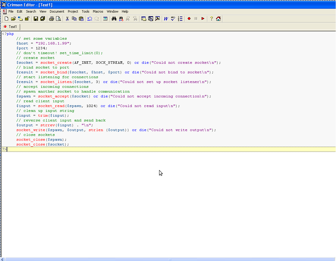 crimson editor screenshot